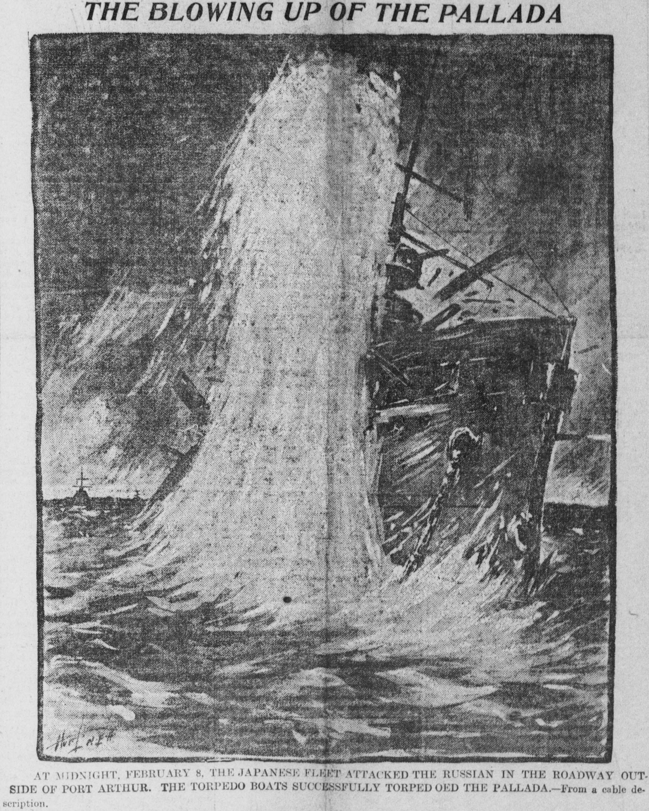 artist's conception of the torpedoing of the Pallada during the Battle of Port Arthur.